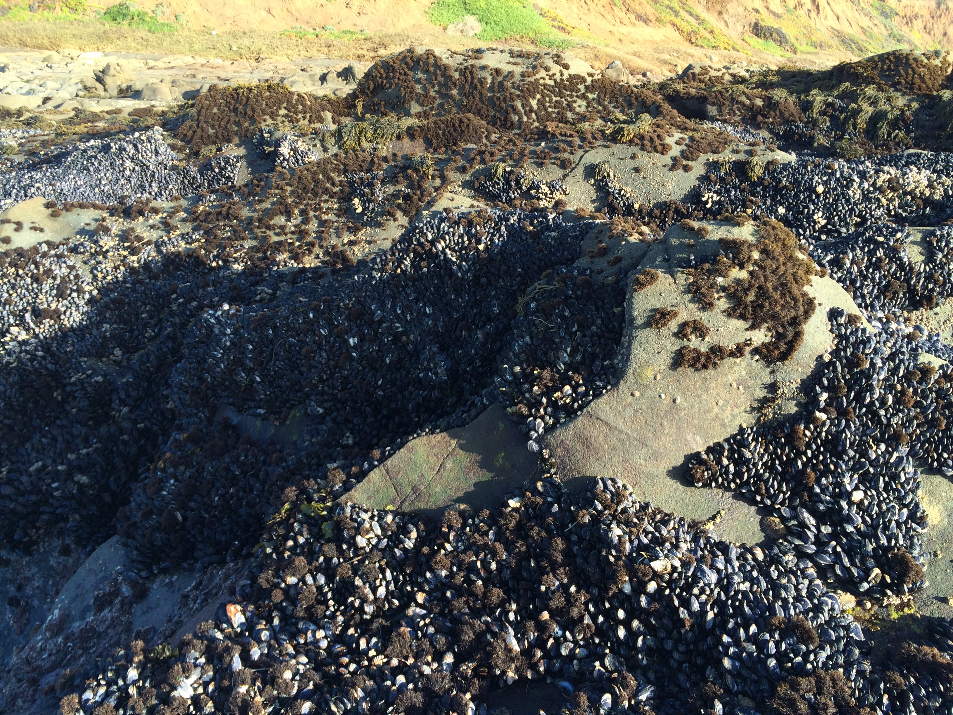 Endocladia muricata in mussel beds, North Moonstone beach near Cambria CA